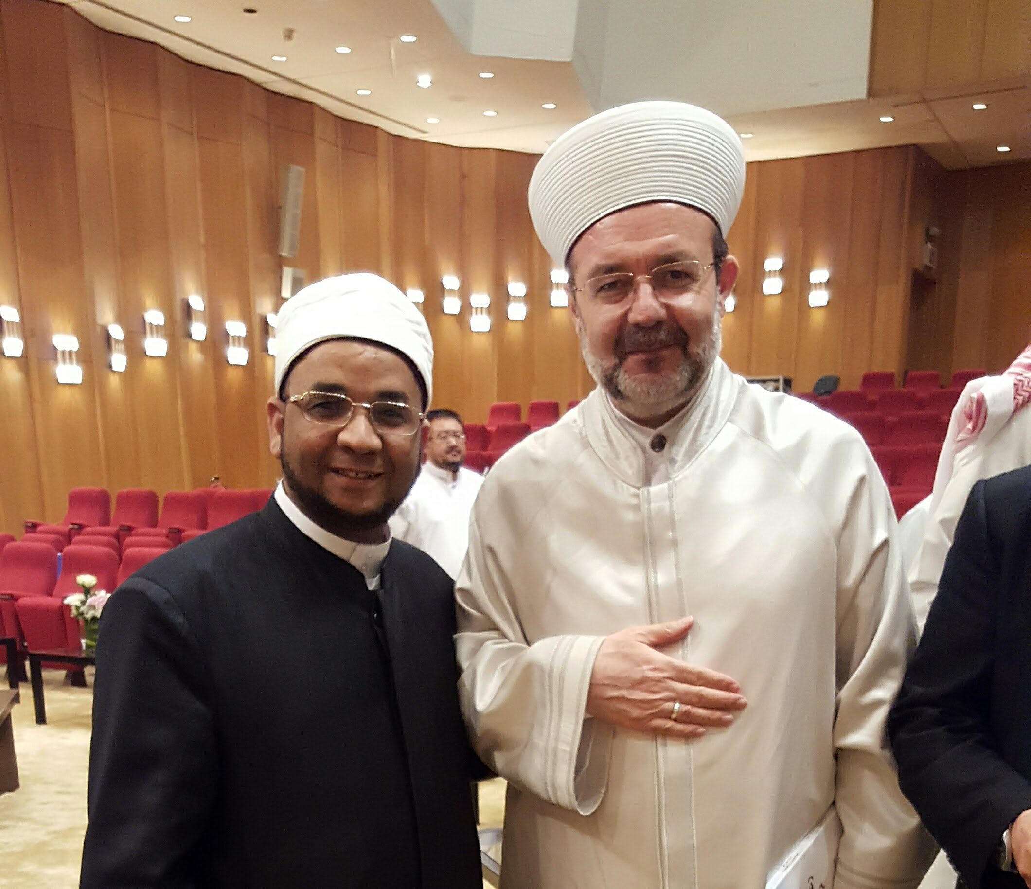 Sh. Khalifa with the Mufti of Turkey.